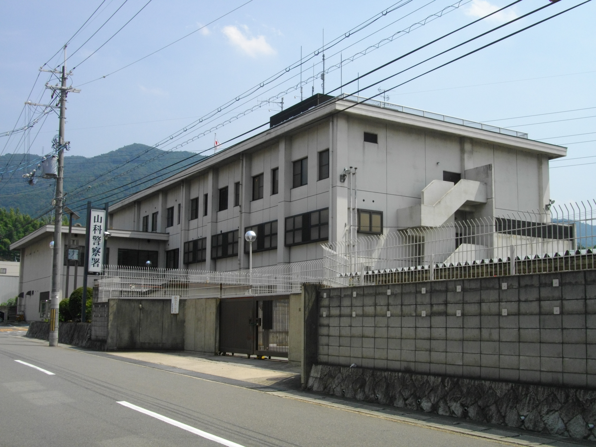 Yamashina Police Station